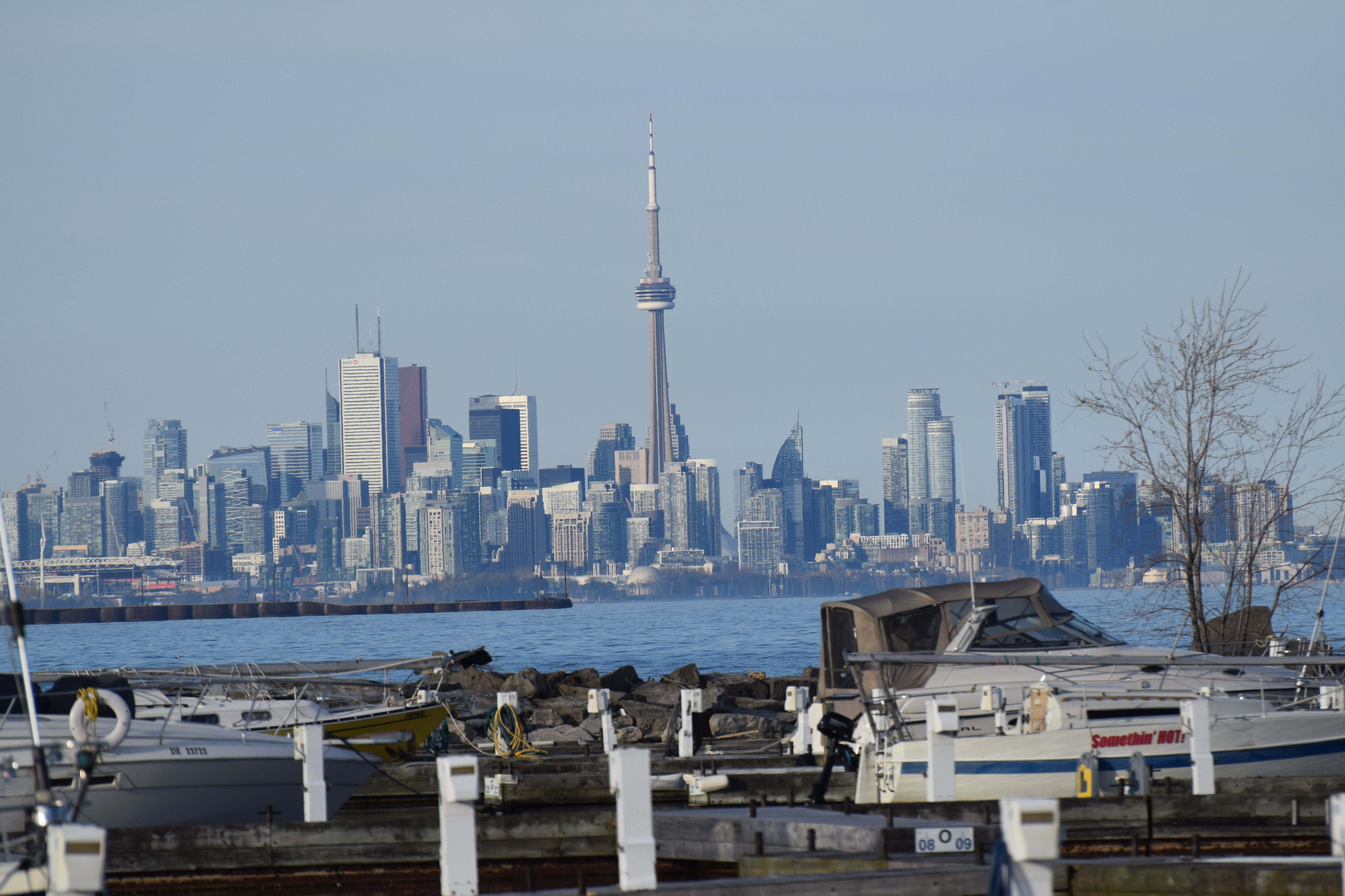 A picture of the CN Tower in Toronto, Ontario, taken from Mississauga's Port Credit Pier using a Nikon D5300. This photo is taken from a distance of roughly 18.7 kilometers, or 11.6 miles.